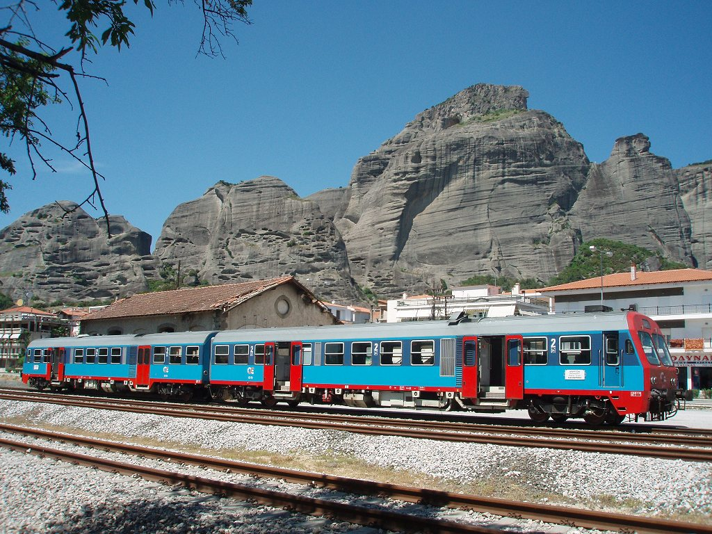 Hellenic Railways Organization: MAN/Hellenic Shipyards Class 620 DMU2 at Kalampaka Station.